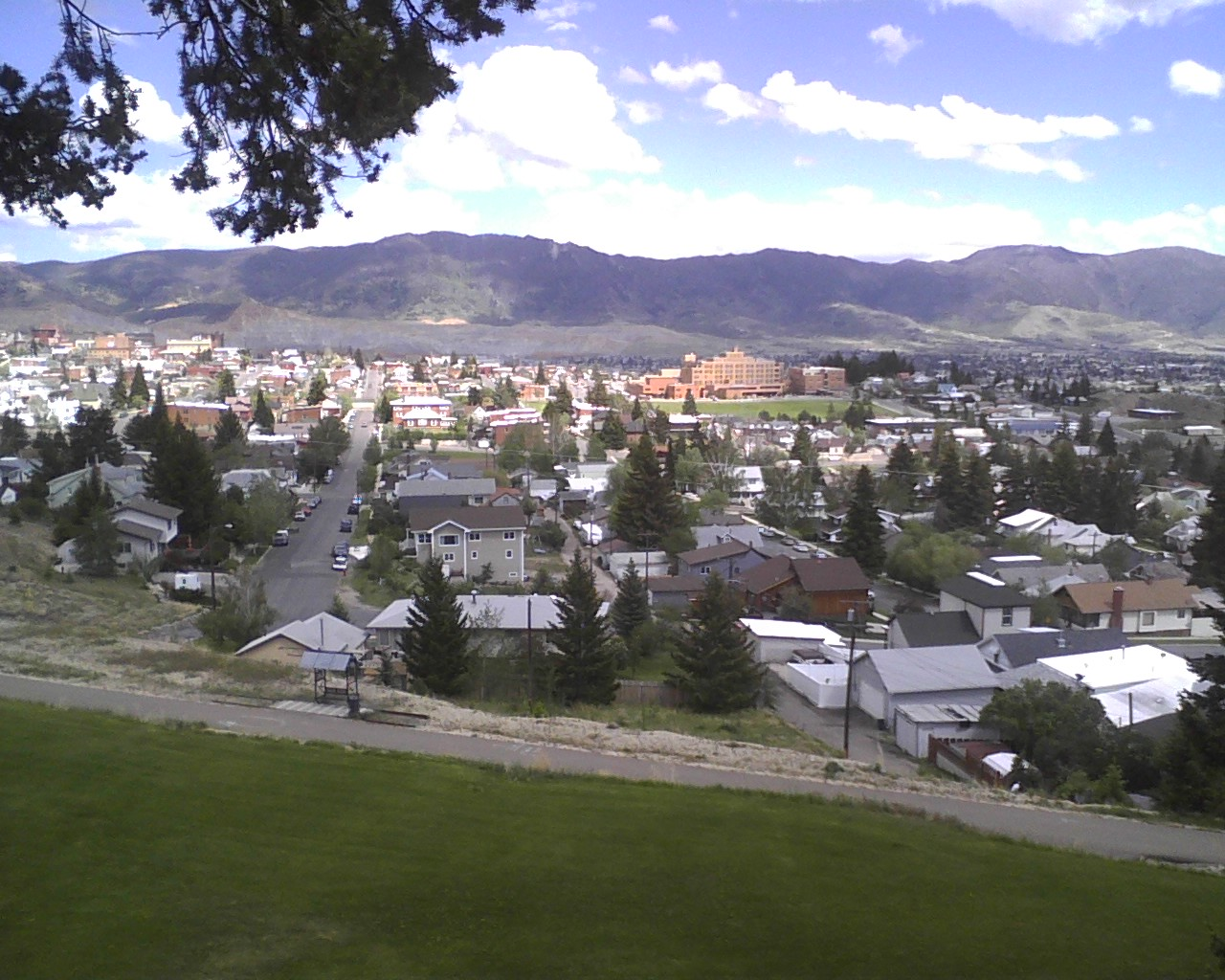 Butte, Montana as seen from the campus of Montana Tech. St. James Hospital and Continental Divide visible in photo